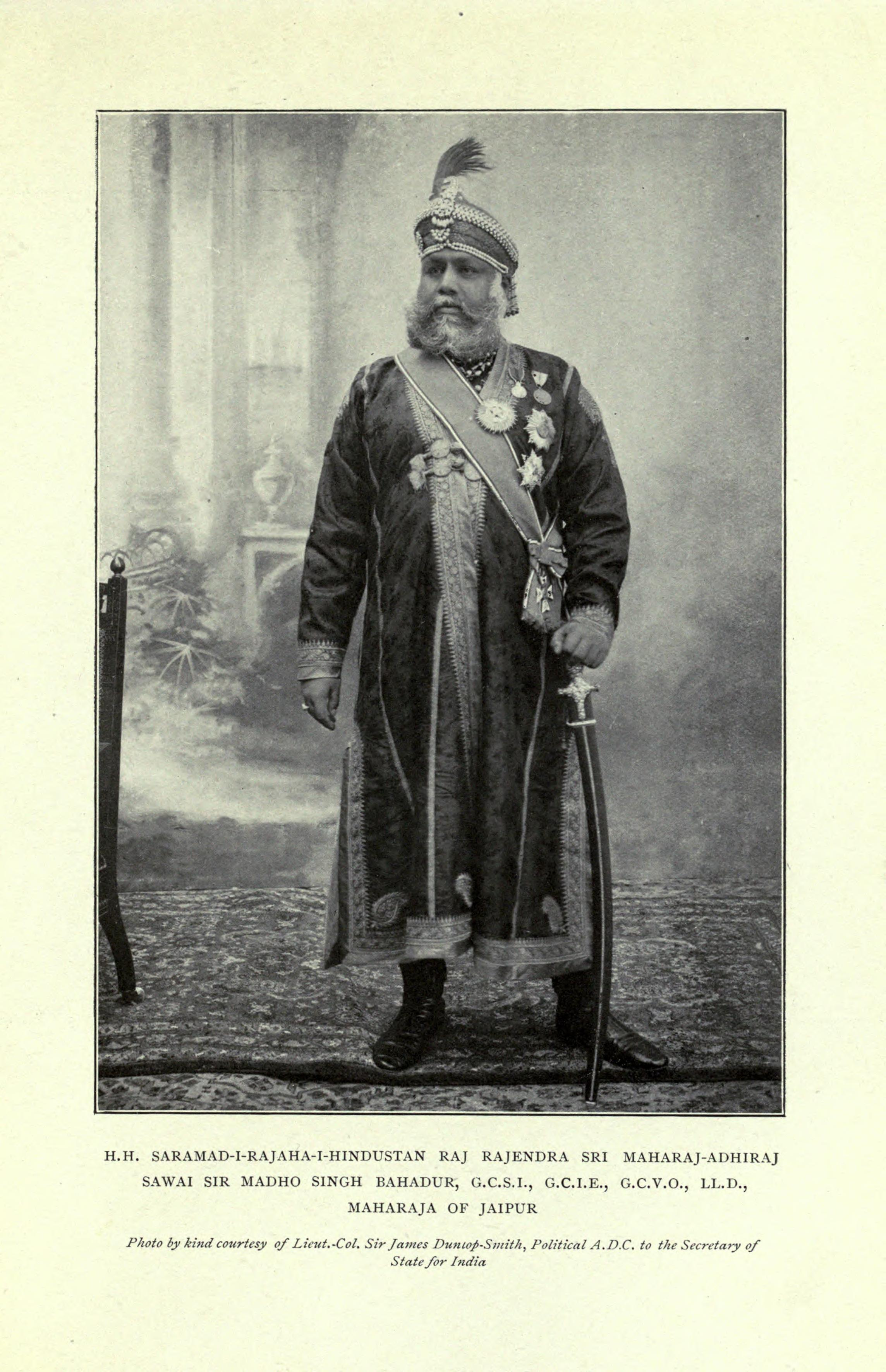 The Rajputs: a fighting race; a short account of the Rajput race, its warlike past, its early connections with Great Britain, and its gallant services at the present moment at the front (1915) Author: Jessrajsingh Seesodia Subject: Rajput (Indic people) Publisher: London, East and West, ltd. Possible copyright status: NOT_IN_COPYRIGHT Language: English Call number: nrlf_ucb:GLAD-50521797 Digitizing sponsor: MSN Book contributor: University of California Libraries Collection: cdl; americana Full catalog record: MARCXML [Open Library icon]This book has an editable web page on Open Library.